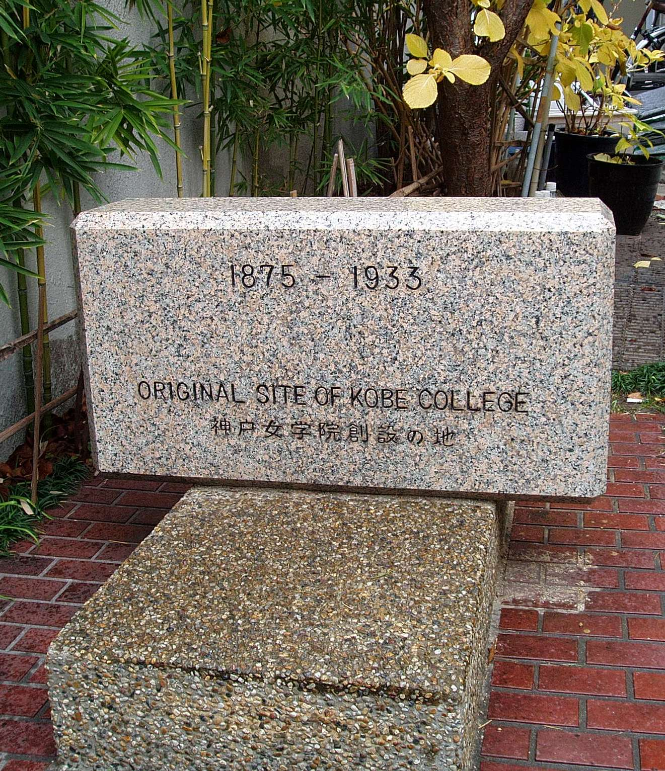 A memorial of the original site of Kobe College, located in Chuo-ku, Kobe, Hyogo, Japan.The college was located here 1875 - 1933, then moved to the present campus in Nishinomiya.